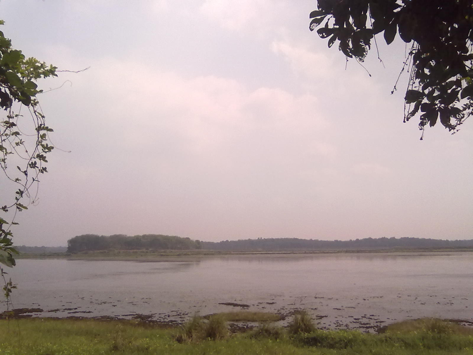 The Rice farm of Onattukara, extended in Pandalam, Nooranad, Palamel panchayaths